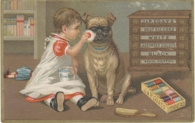 Persistent URL: Subject (TGM): Children; Girls; Animals; Pets; Dogs; Humorous pictures; Children playing; Thread; Thread industry; Sewing equipment & supplies; Message: Keywords